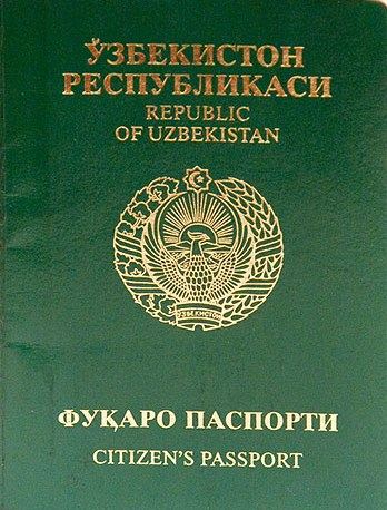 Uzbekistan passport cover